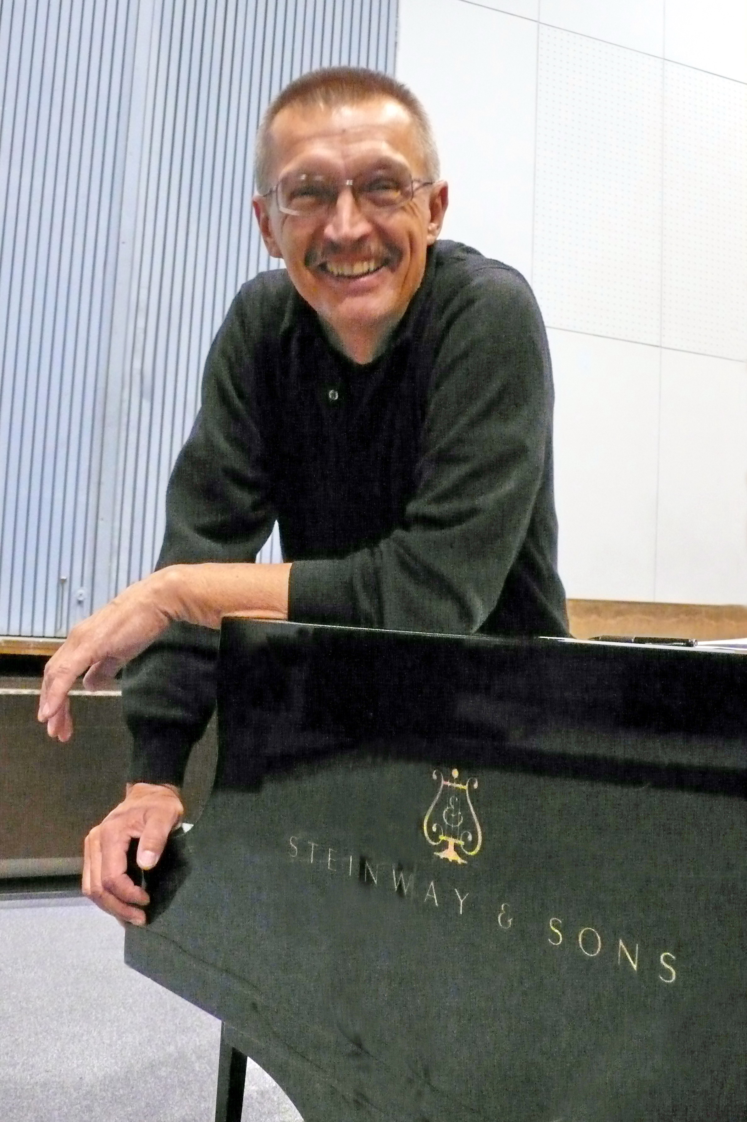 Emil Viklicky, 10/16/2007